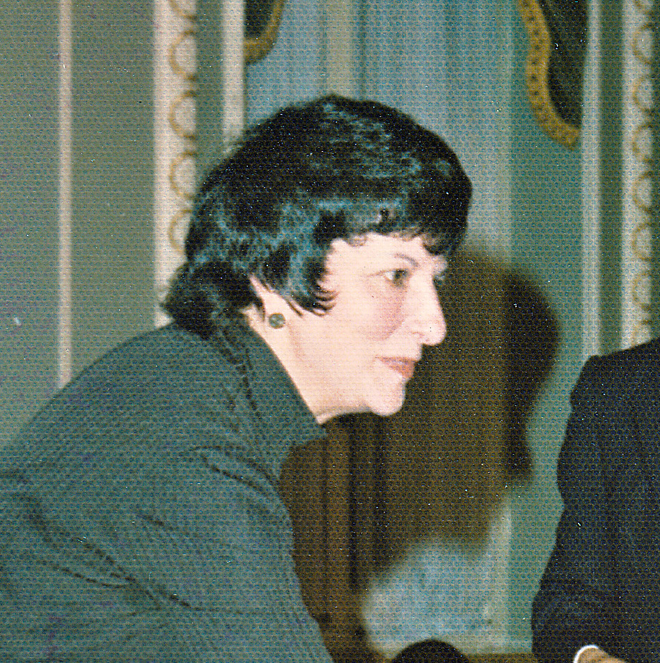 Minister Carmen Naranjo photo cropped from pic awarding the National Prize for Painting to César Valverde Vega.